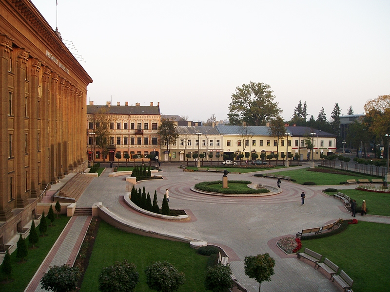 Daugavpils University, Daugavpils, Latvia